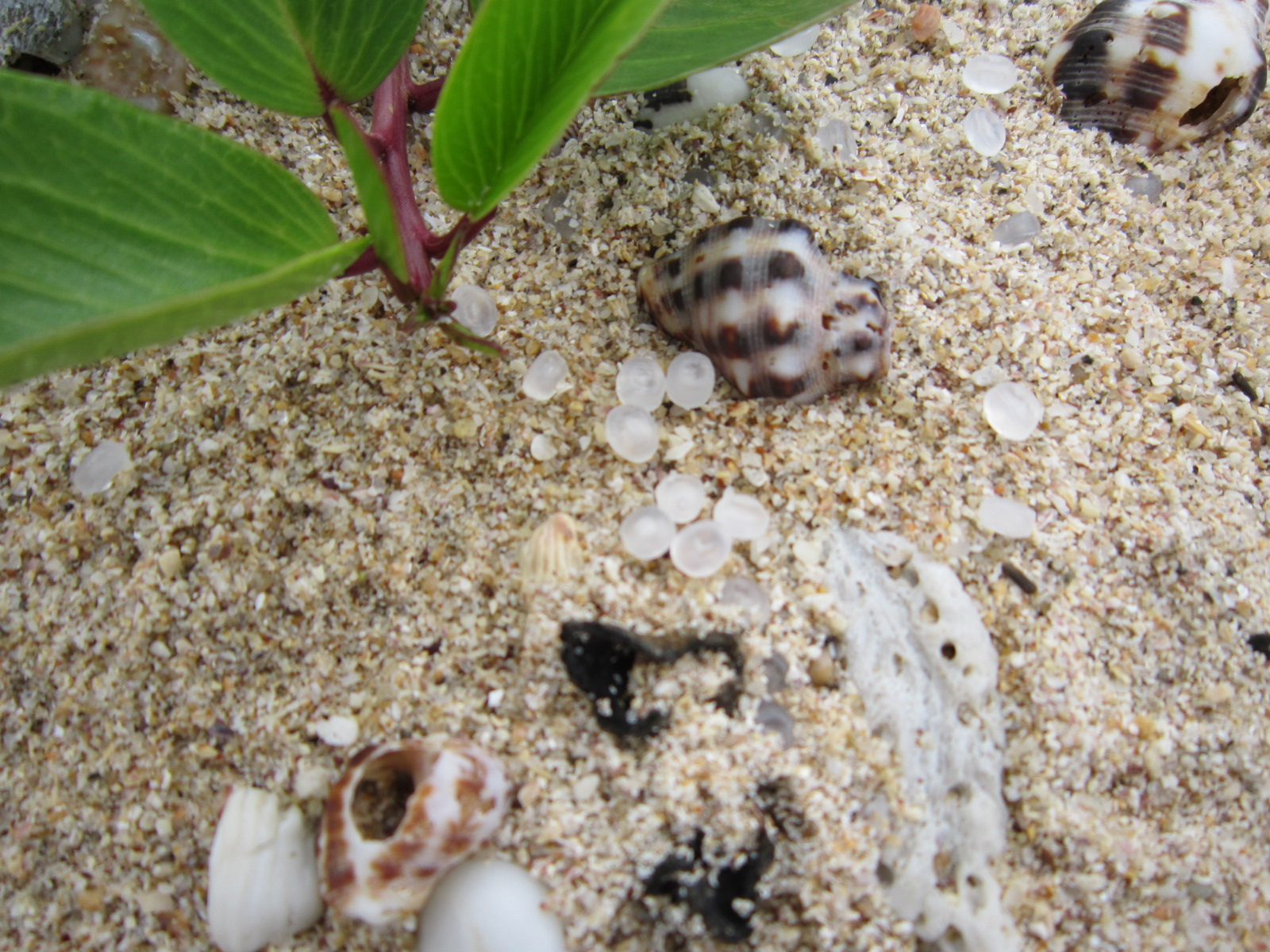 Plastic pellets at the beach of Ngong Chong, Po Toi中文（香港）: 位於蒲台島昂裝沙灘上的膠粒